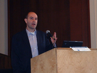 This is an image of Chris Anderson. (Photographer: User:Joebeone)